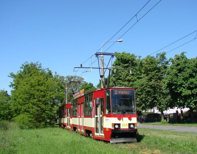 Konstal 105Na #134 on Kostrzyńska Street